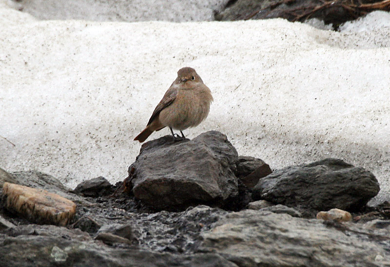 White-winged Redstart Phoenicurus erythrogastrus (female) at Kullu district of Himachal Pradesh, India. During my recent trekking trip to Sar Pass in Himachal, I saw this bird in the evening around my camp at Tila Lotani (12500 ft.) on 9/5/07, above tree line. It was roaming around the stones/boulders & was hardly allowing any close approach. It was not seen making any calls.